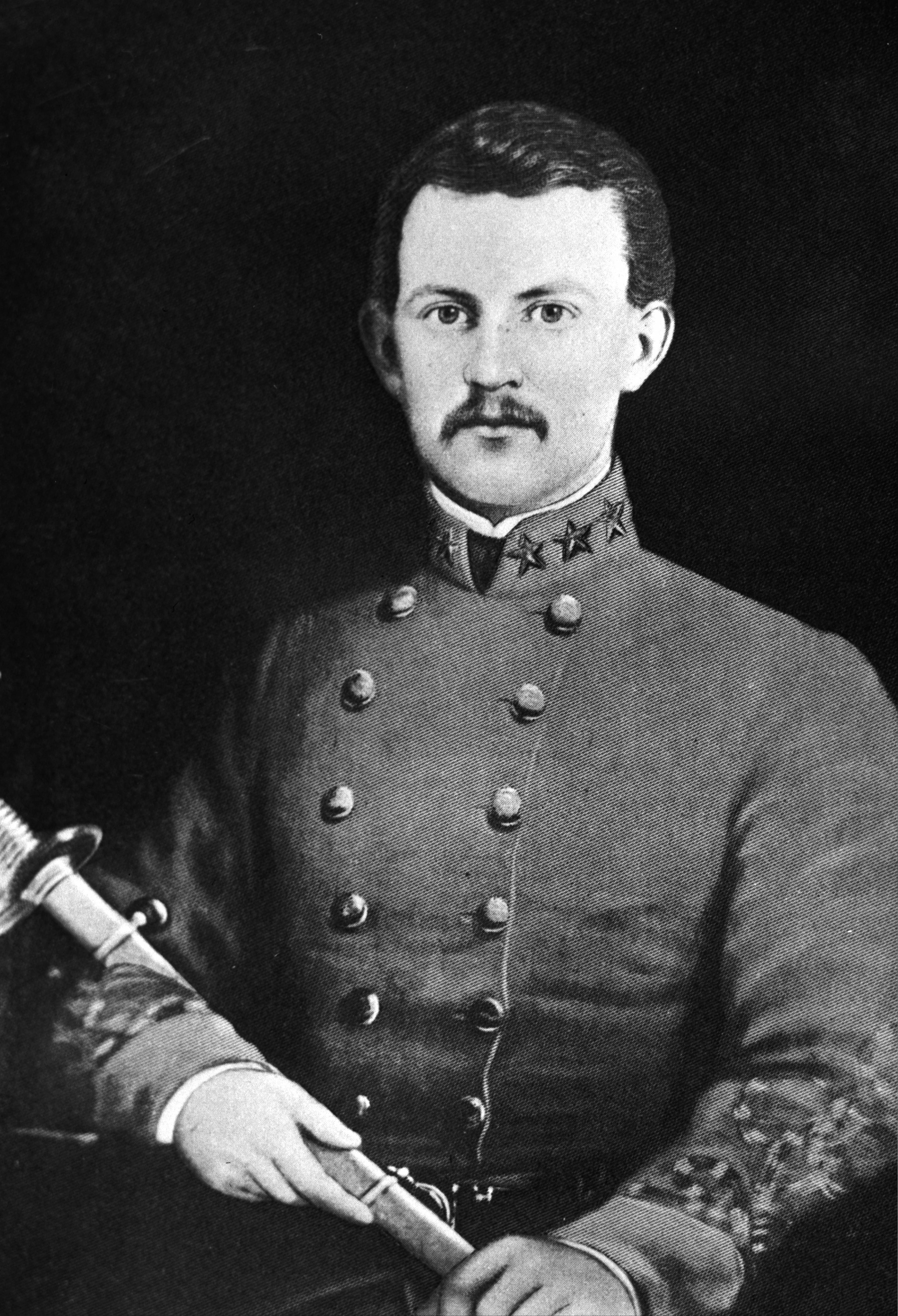 Colonel Henry King Burgwyn, Jr. (1841-1863), UNC student killed at Gettysburg, published in Biographical history of North Carolina from colonial times to the present; by Samuel A. Ashe(1840-1938). Greensboro, N.C.: C. L. Van Noppen, 1905, between p. 66 and p. 67. Note: Henry King Burgwyn, Jr. (1841-63), the youngest colonel in the Army of Northern Virginia and one of the youngest colonels of the American Civil War, died at the age of twenty-one while leading the Twenty-sixth North Carolina Infantry Regiment into action at the Battle of Gettysburg.